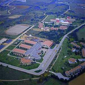 Birdeye look of the campus